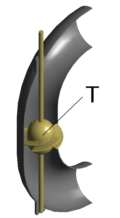 Schematic of a turbine flowmeter